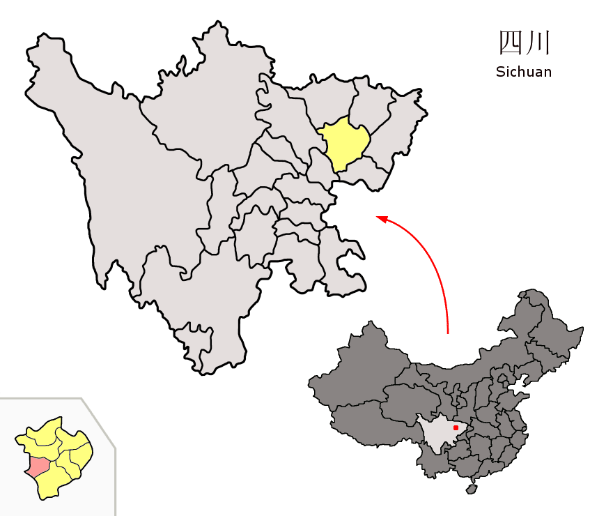 Location of Xichong County (pink) and Nanchong Prefecture (yellow) within Sichuan province of China Map drawn in october 2007 using various sources, mainly : Sichuan province administrative regions GIS data: 1:1M, County level, 1990 Sichuan Counties map from